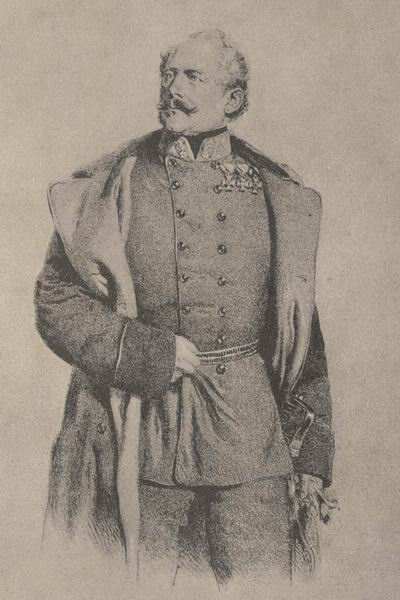 Thomas Friedrich Zobel, Lithography of Josef Kriehuber, 1854